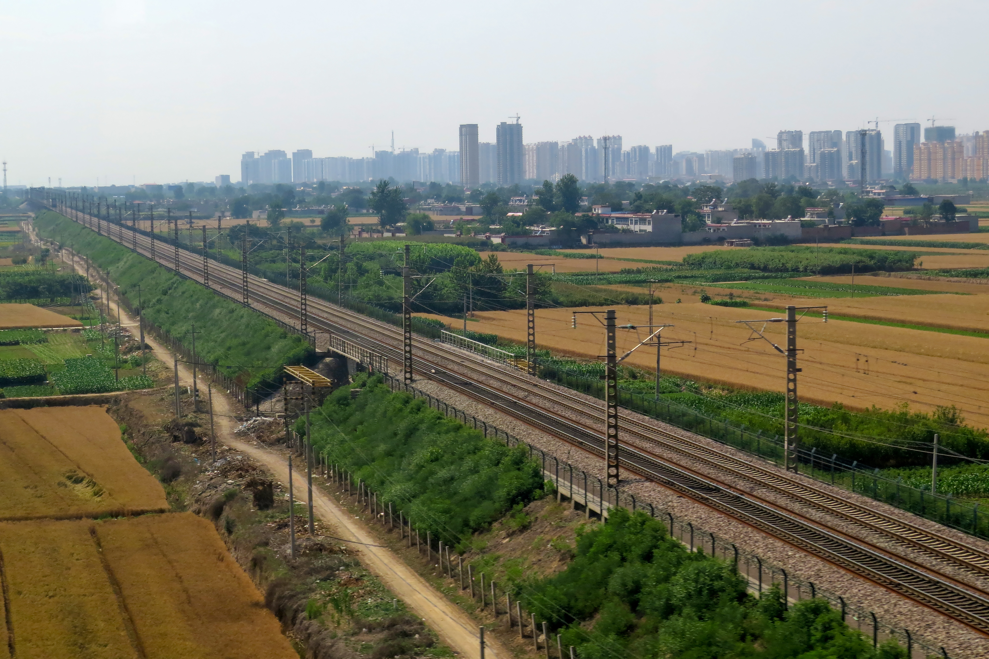 Taken from G662 on Beijing-Guangzhou HSR.